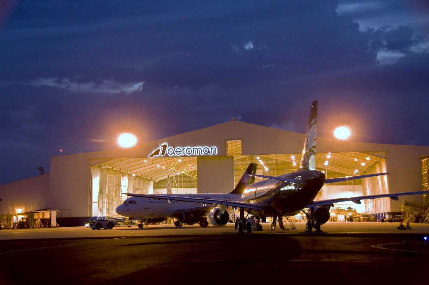 The aeroman hangar in El Salvador during night time.